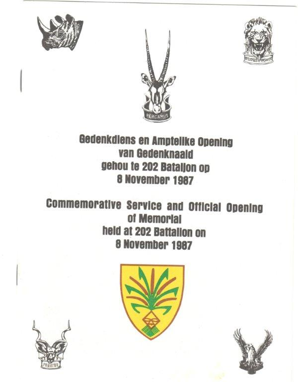 Commemorative Service and Official Opening of Memorial held at 202 Battalion 8 November 1987Afrikaans: Gedenkdiens en Amptelike Opening van Gedenknaald gehou te 202 Bataljon op 8 November 1987